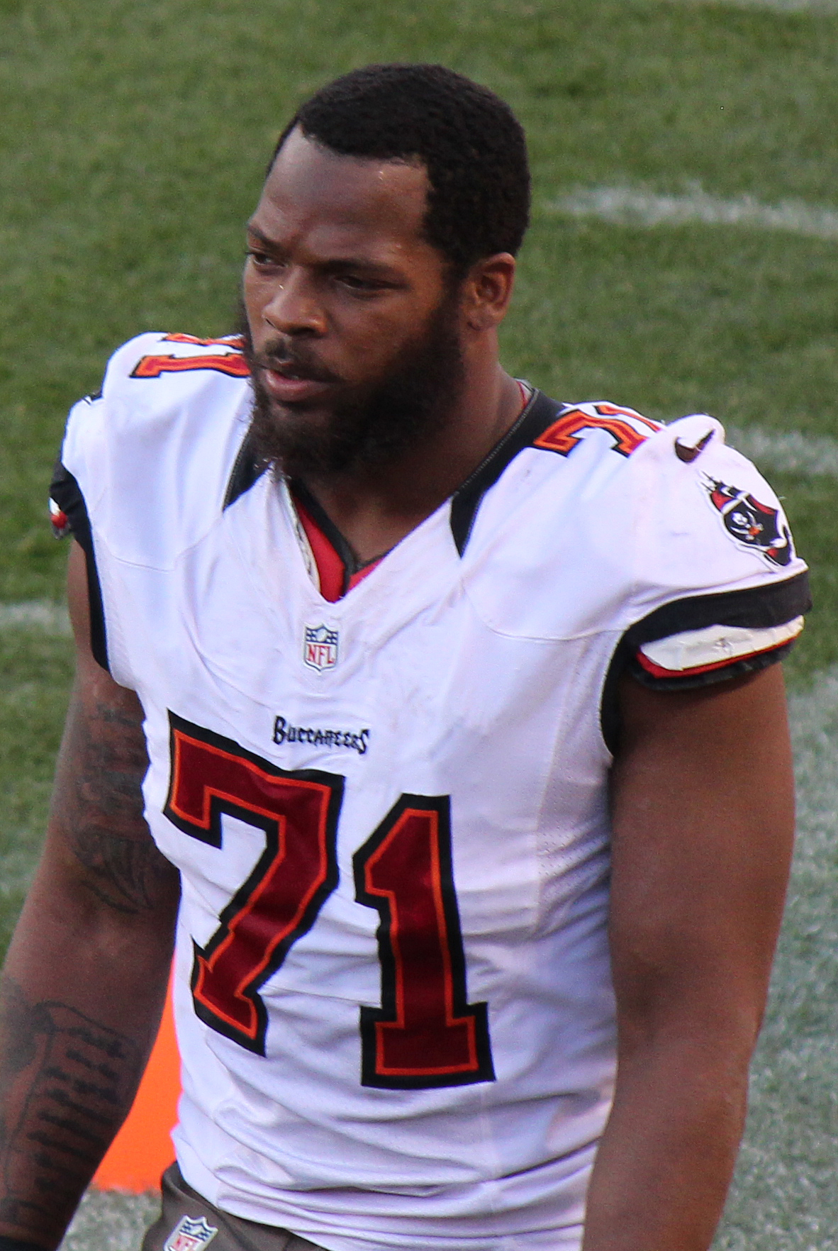 Michael Bennett, a player on the National Football League.